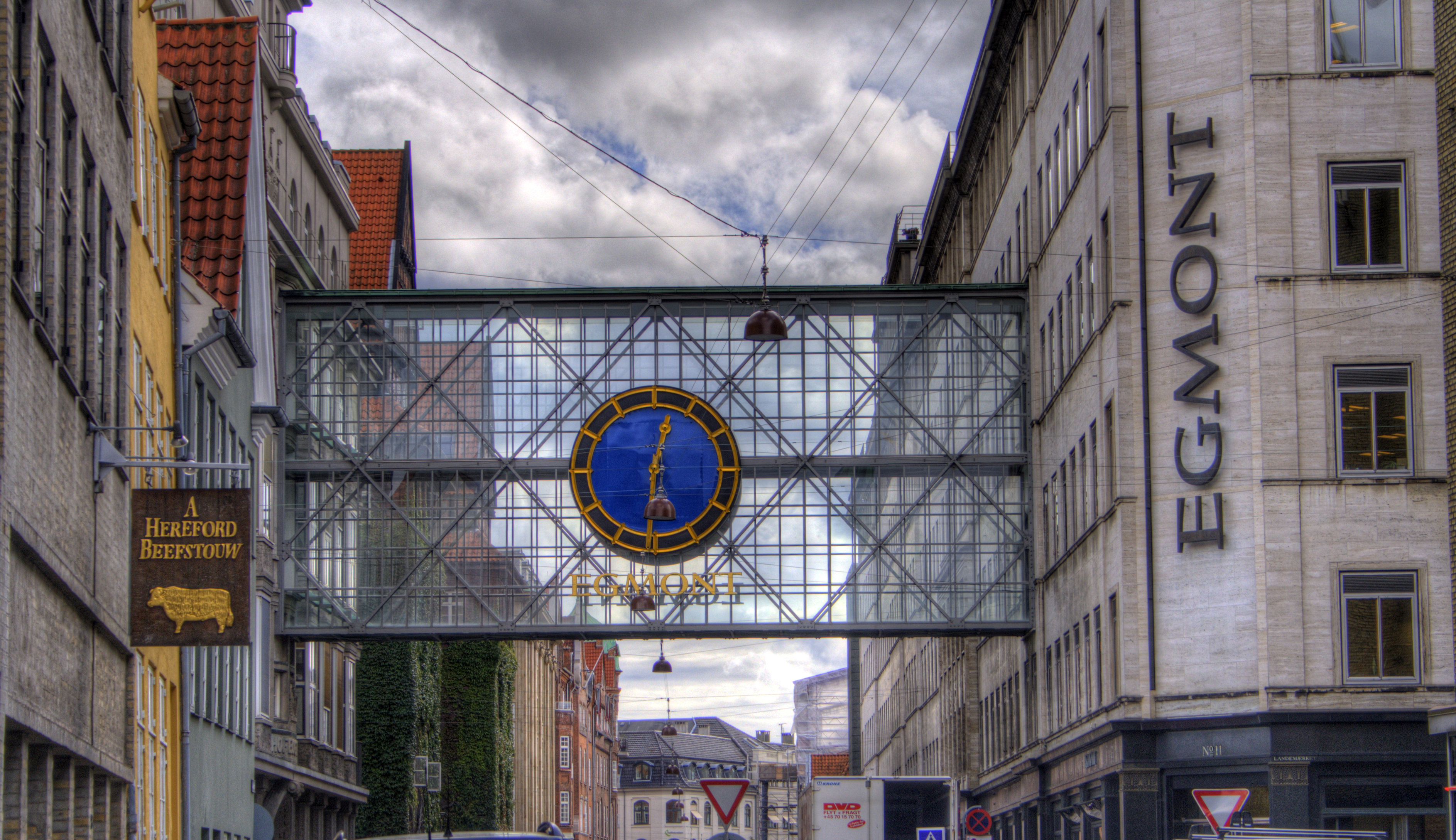 Egmont Group's head office in Copenhagen, Denmark